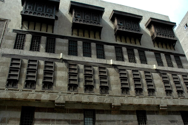 Wikala of al-Ghuri. Wikala. Cairo. Egypt